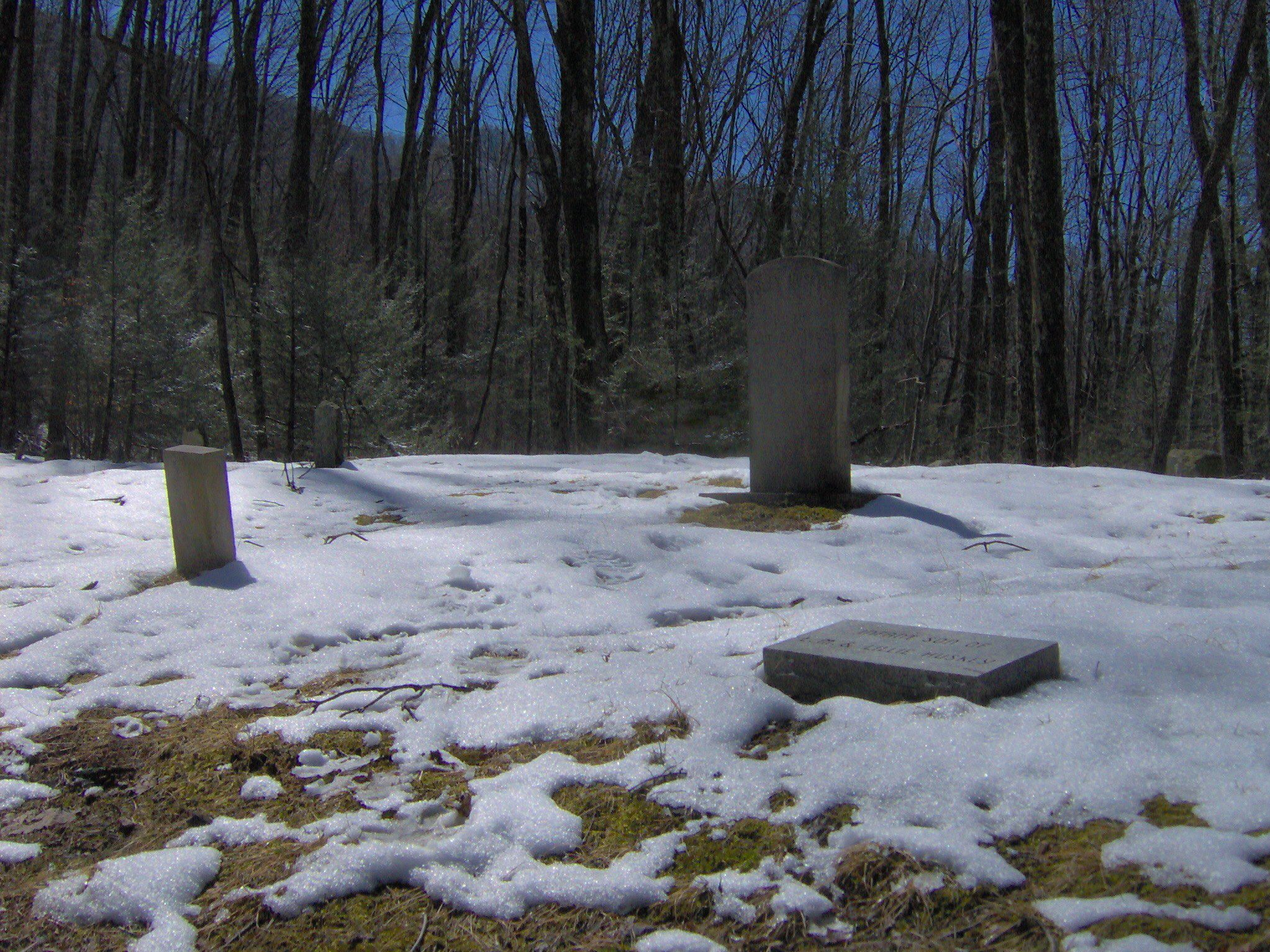 Meigs Mountain Cemetery, located near the Meigs Mountain Trail/Curry Mountain Trail junction in the Great Smoky Mountains of East Tennessee, in the southeastern United States. Most of the graves are marked only by upright, unpolished stones. The polished upright stone toward the back is that of Polly Huskey (1866-1909). The polished headstone in the foreground is that of a Huskey infant. A small spur connects this cemetery to the Meigs Mountain Trail.